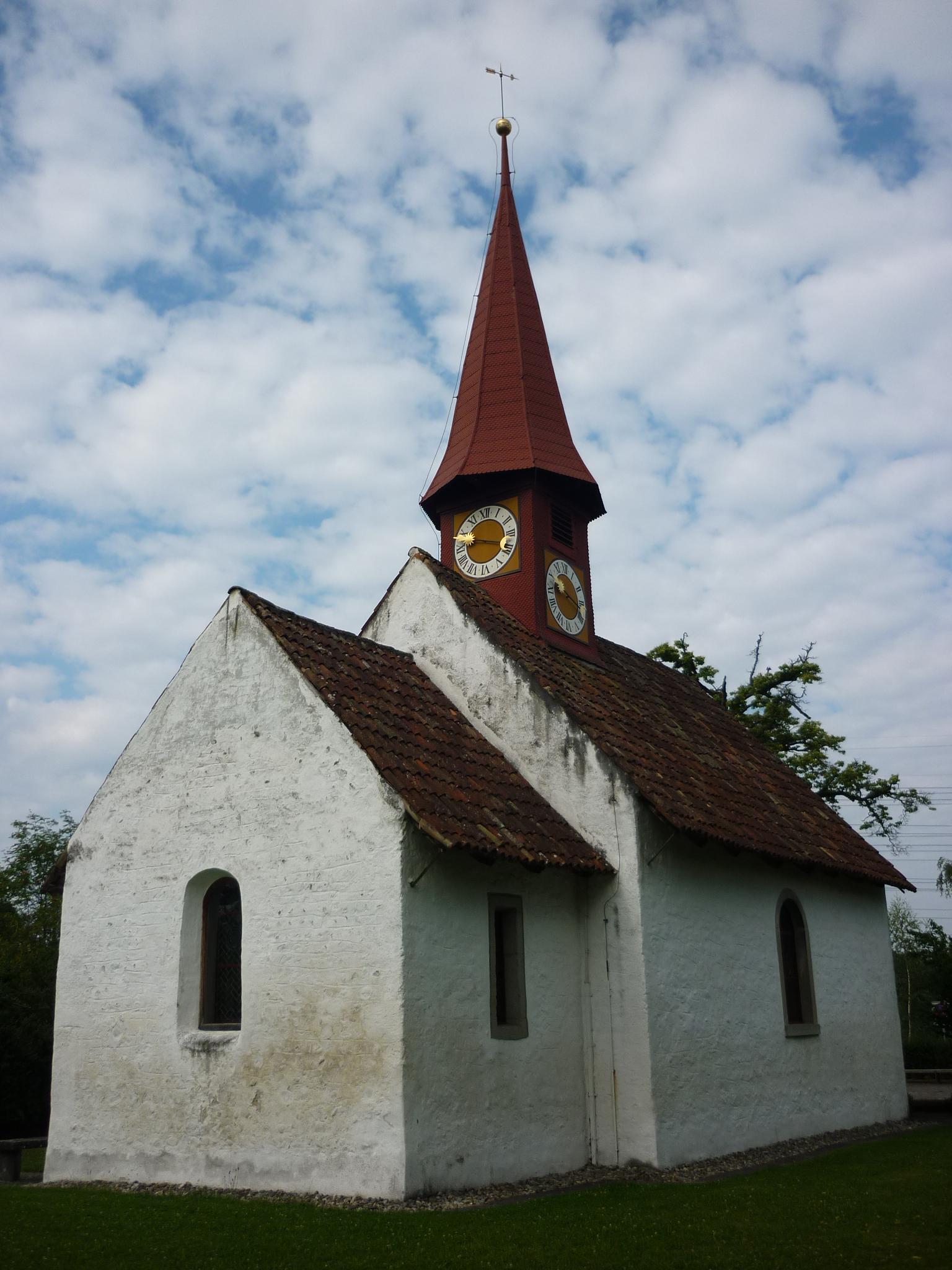 Oswald chapel, Breite, Nürensdorf, Switzerland